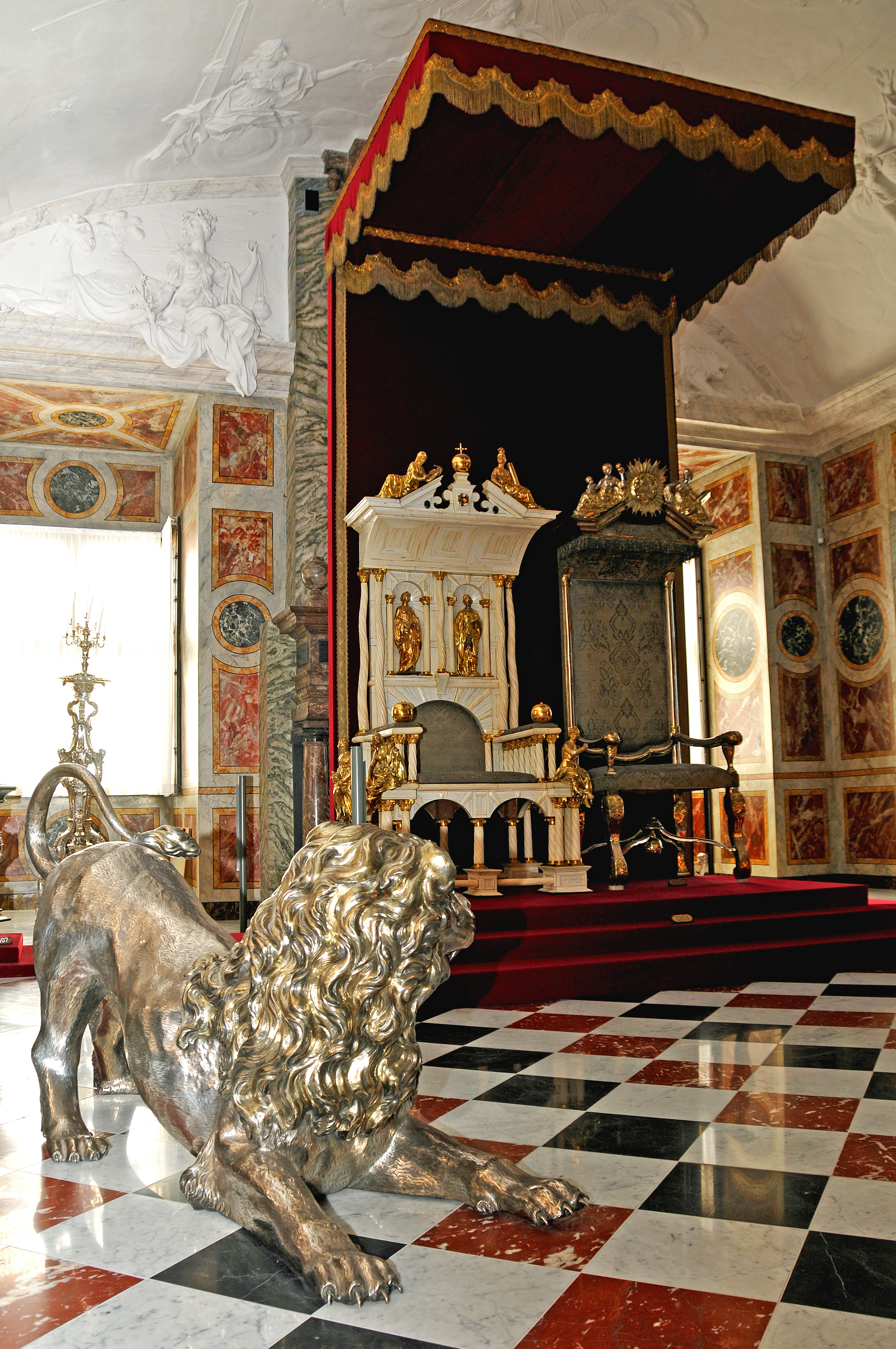 Among the main attractions of Rosenborg are the coronation chair of the absolutist kings and the throne of the queens with the three silver lions standing in front.